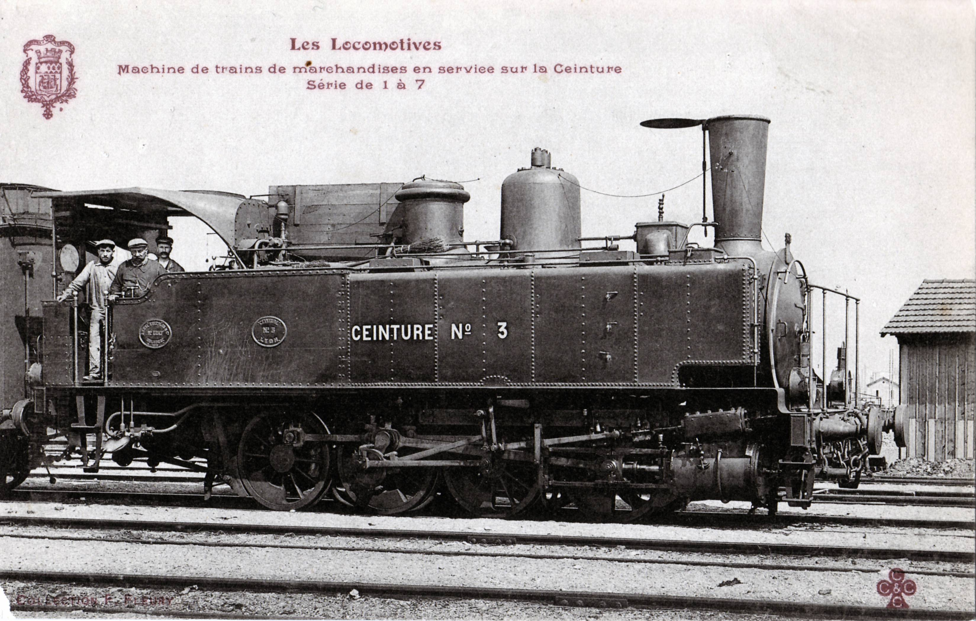 Locomotive 0-8-0 Ceinture 3, future Nord 040 T 4 963 and SNCF 040 TB.